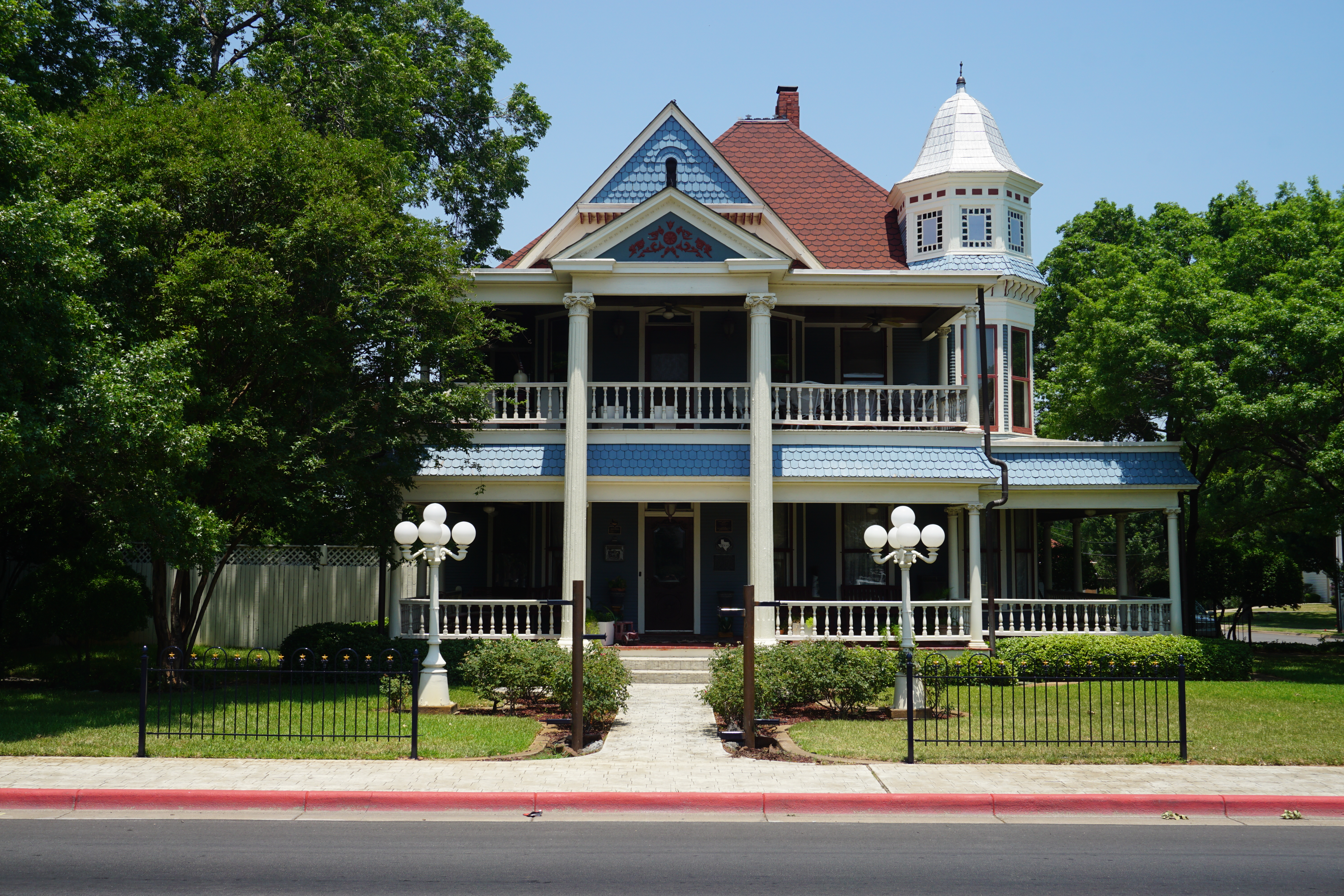 The Baker-Carmichael House in Granbury, Texas (United States).